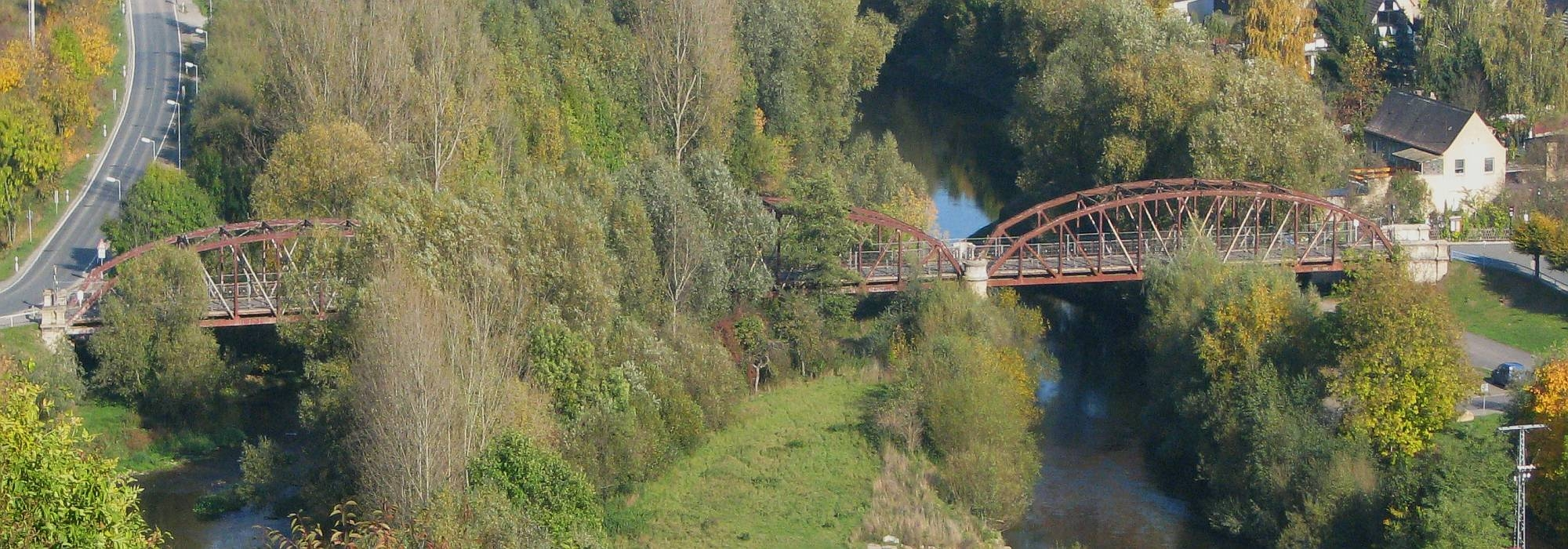 Aerial photograph: Carl Alexander bridge with steel framework. It was built in 1891-1892 years near Dorndorf Saale. There is the street to Dornburg on the left side and Dorndorf on the right side. Foto Wolfgang Pehlemann Germany IMG_0191